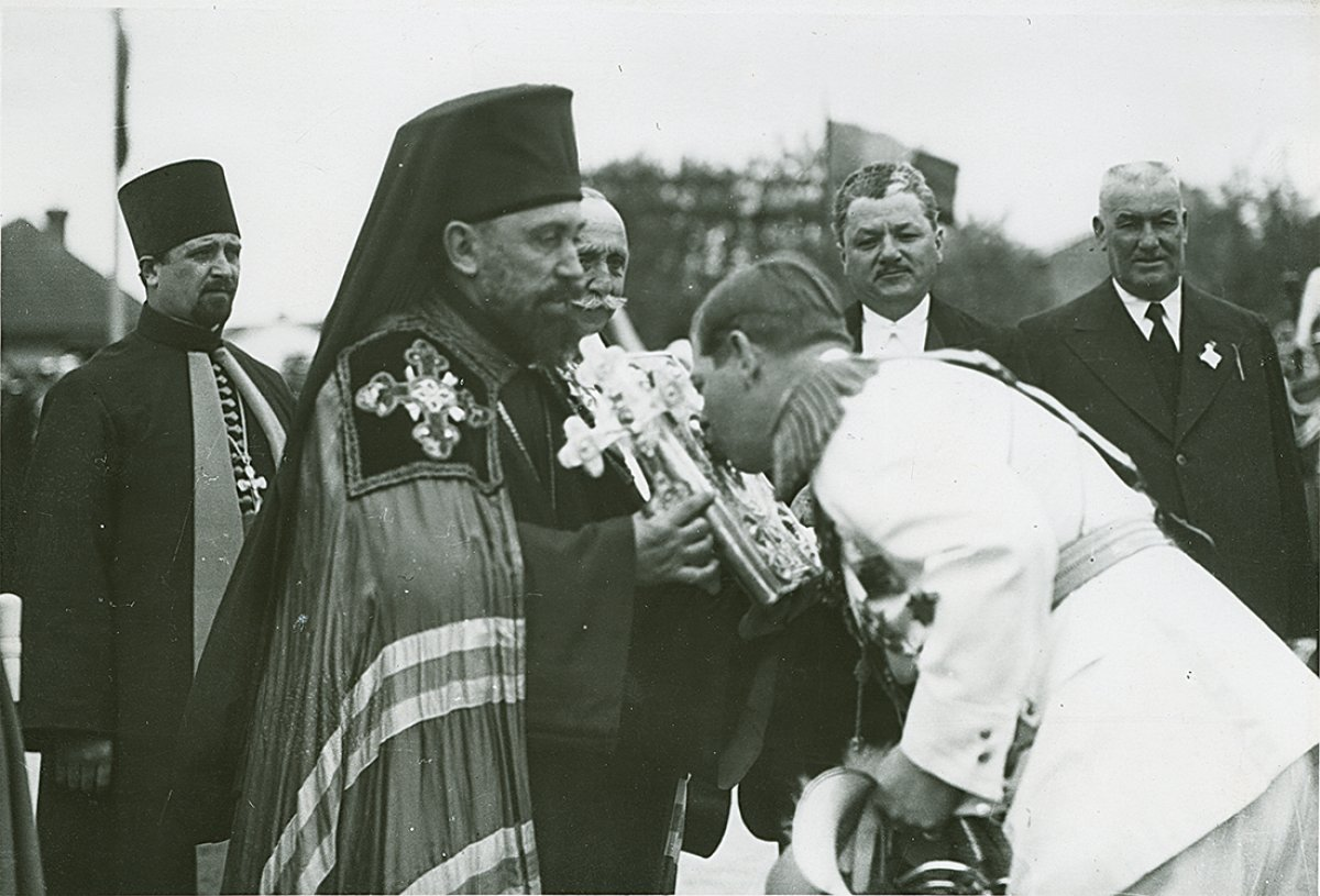 Bishop of Hotin Bessarion (Puiu) meets King Charles at the celebrations of the consecration of the Cathedral of Saints Constantine and Helen in Balti.